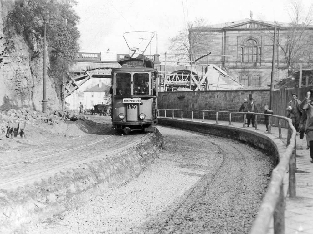 Tramway track under construction in Kassel